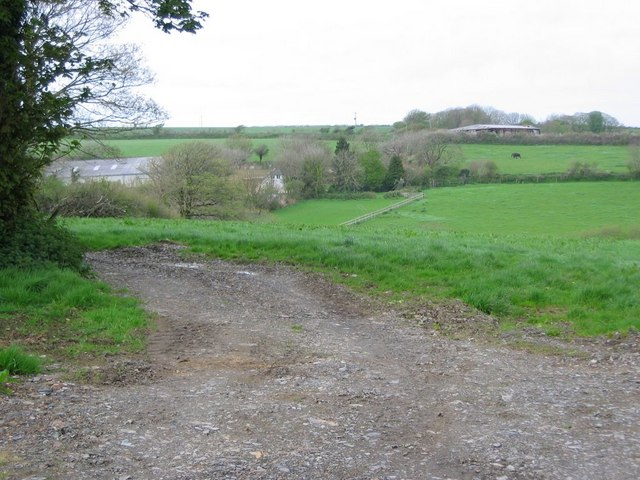 Higher and Lower Youlton Farms, Warbstow, Cornwall. Historically the name is Youlton (e.g. 1840 Tithe Apportionment) and is incorrectly shown as Youlstone (Higher Youlstone as "Higher Youlston"; Lower Youlton as "Youlstone") on the modern OS map. The name is said to be derived from the Old English 'Ealda Tun' - old farmstead and can be traced back to at least 1326.